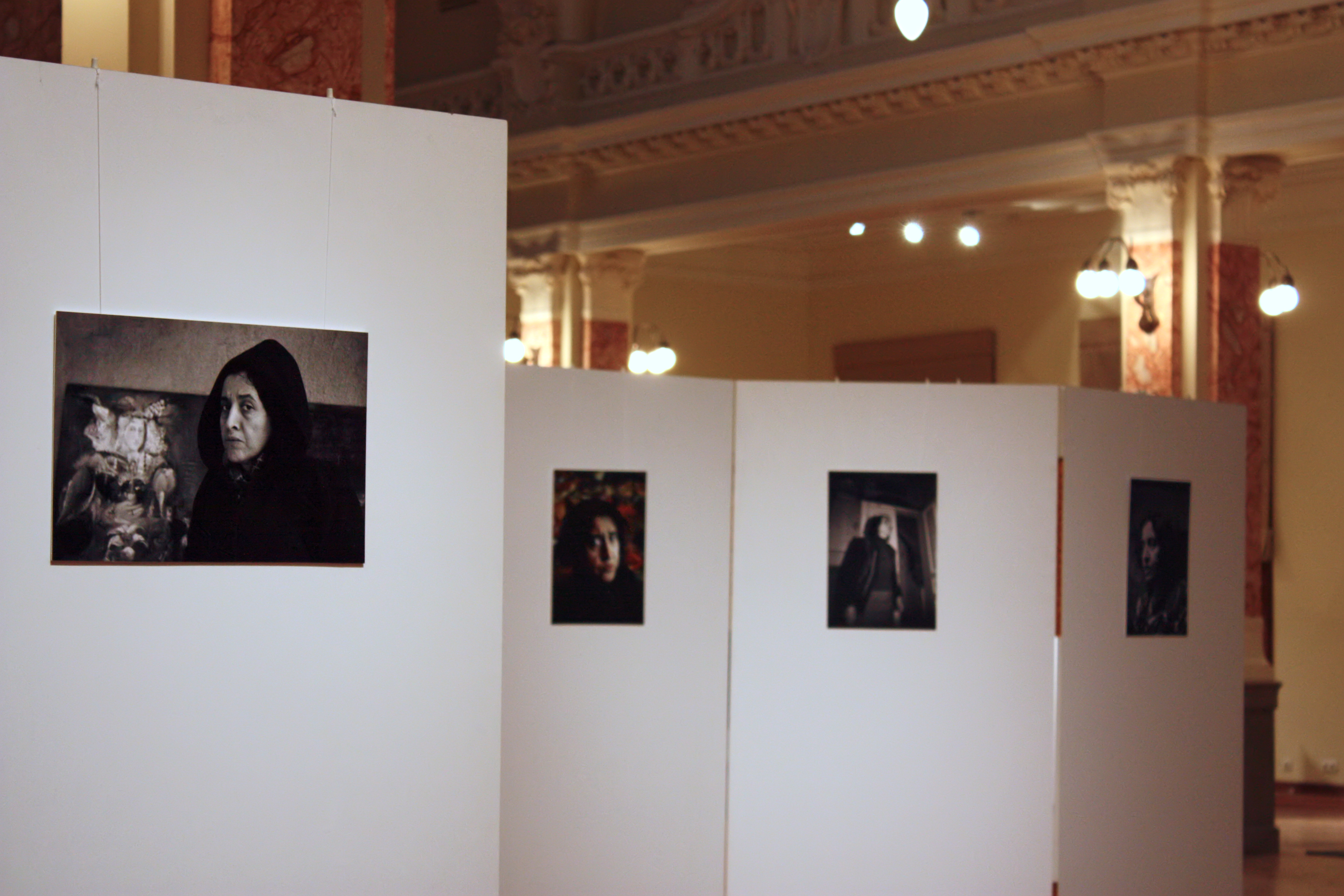 The hall of National_Parliamentary_Library_of_Georgia, the exhibition of photoes of Geirgian photographers dedicated to Gaiane Khachaturian.